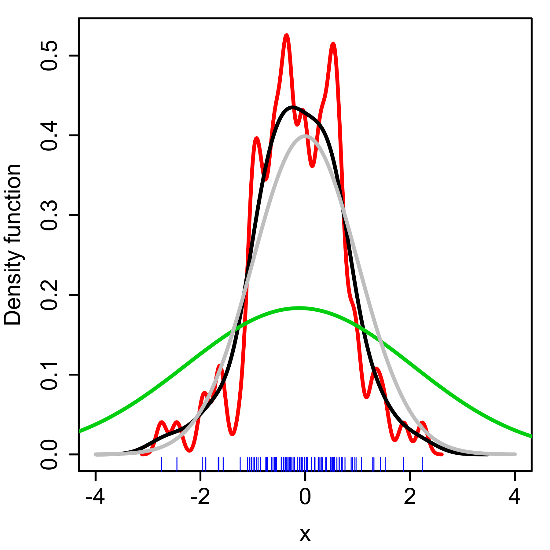 Comparison of 1D bandwidth selectors